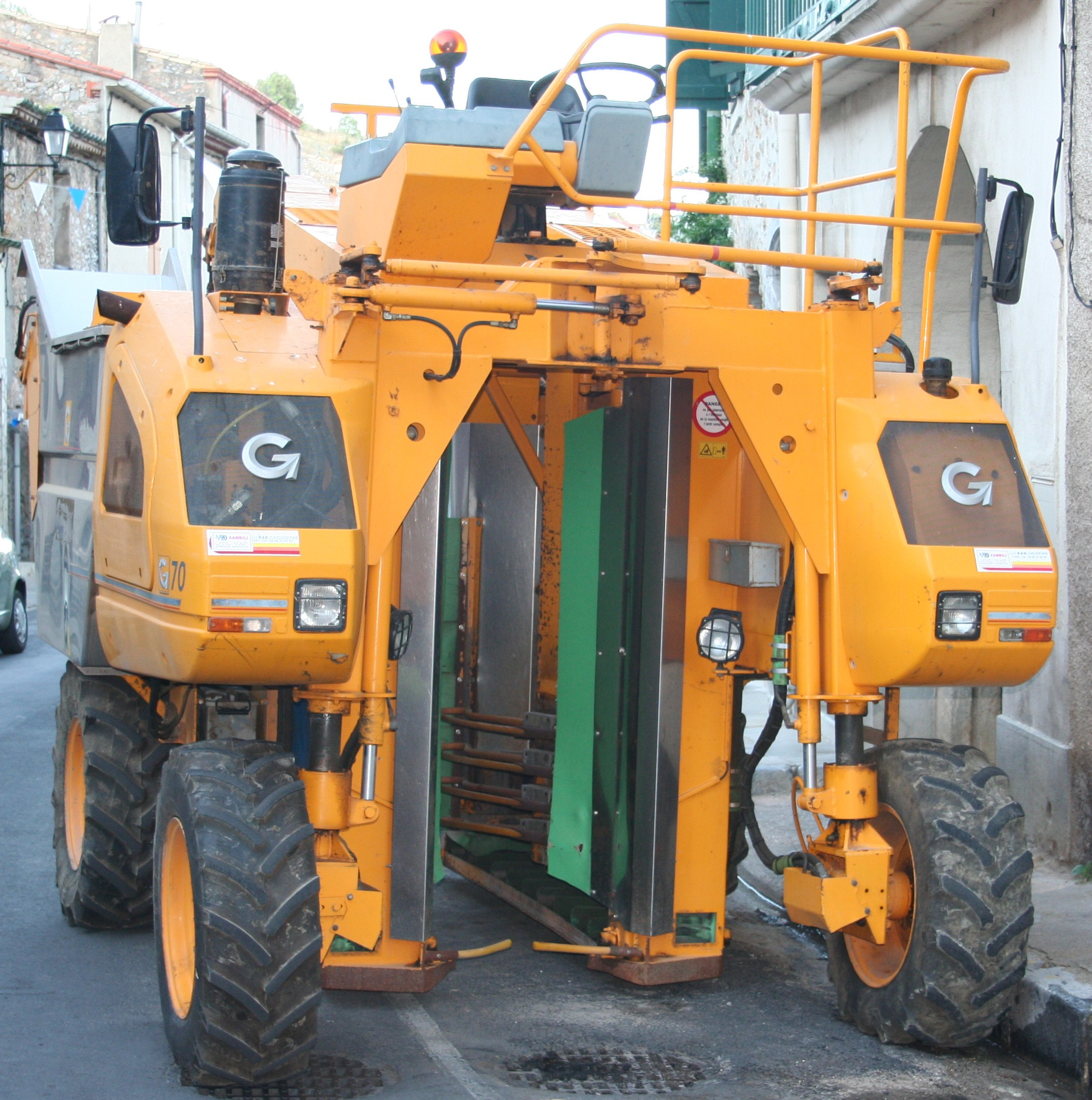 Grape harvesters Gregoire